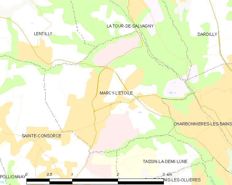 Map of French municipality